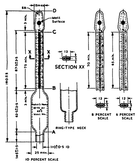 Butyrometer and its percentage scale